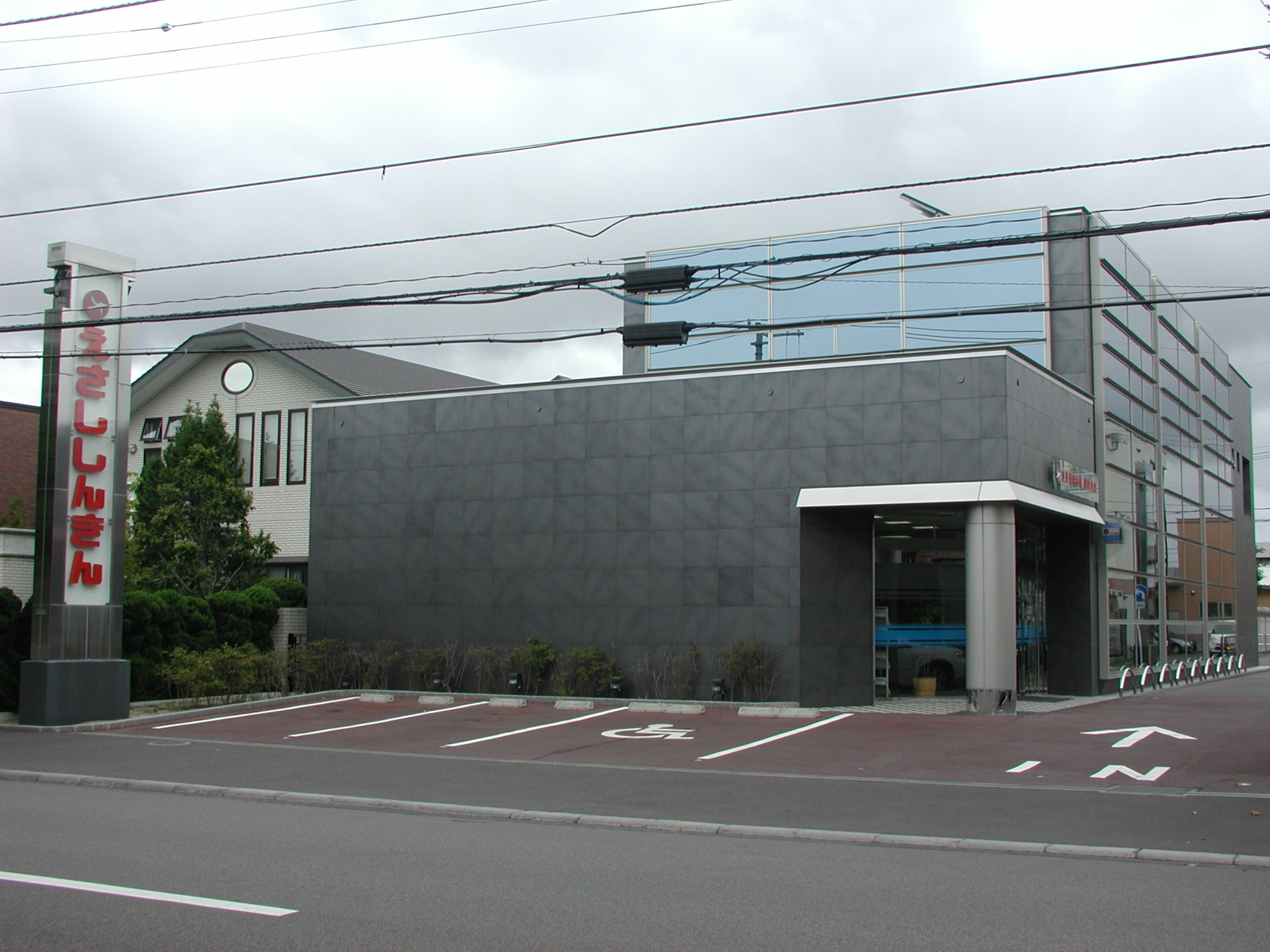 The Esashi Shinkin Bank Hakodate Branch